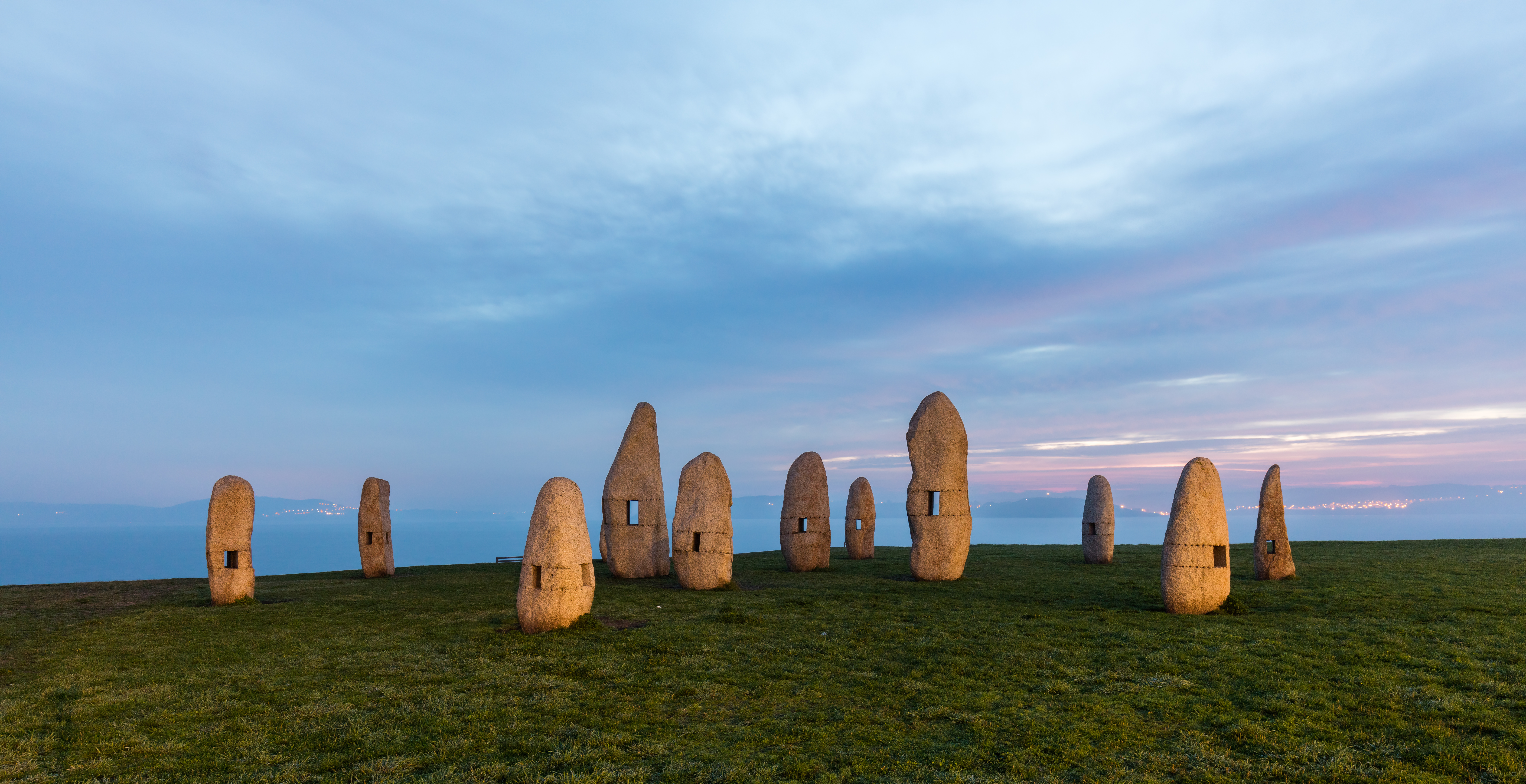 Family of Menhirs, Tower Park, La Coruña, Spain. The sculpture group, created in 1994, is work of artist Manolo Paz. The holes in the rocks are designed to frame different views of the park and the bay through them.